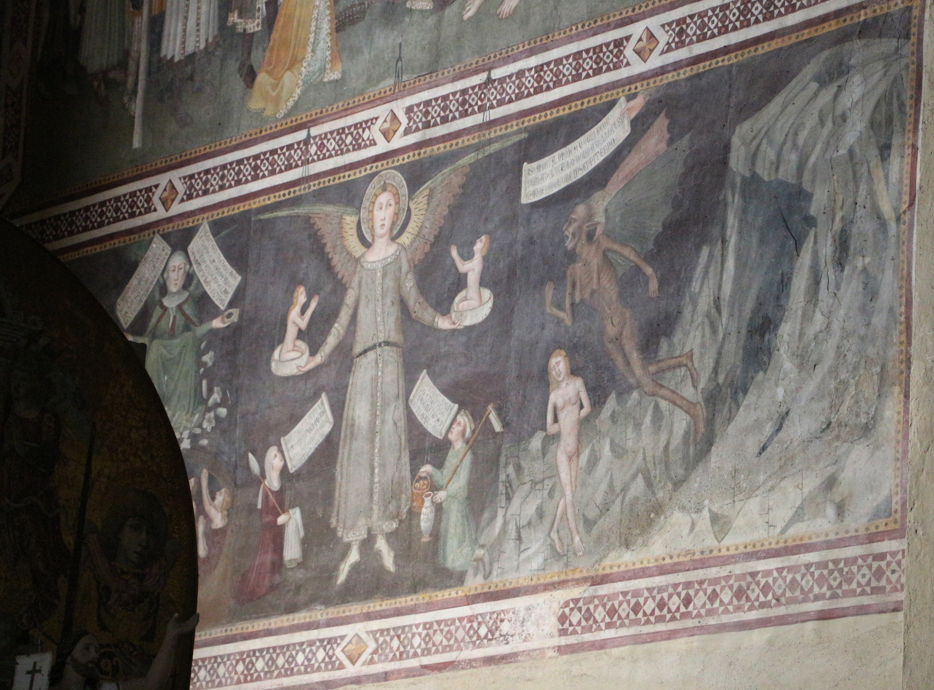 San Michele Arcangelo (Paganico)